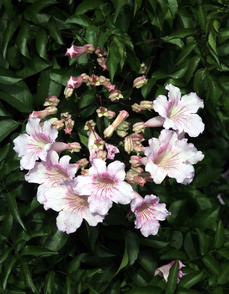 Podranea ricasoliana in New Zealand.